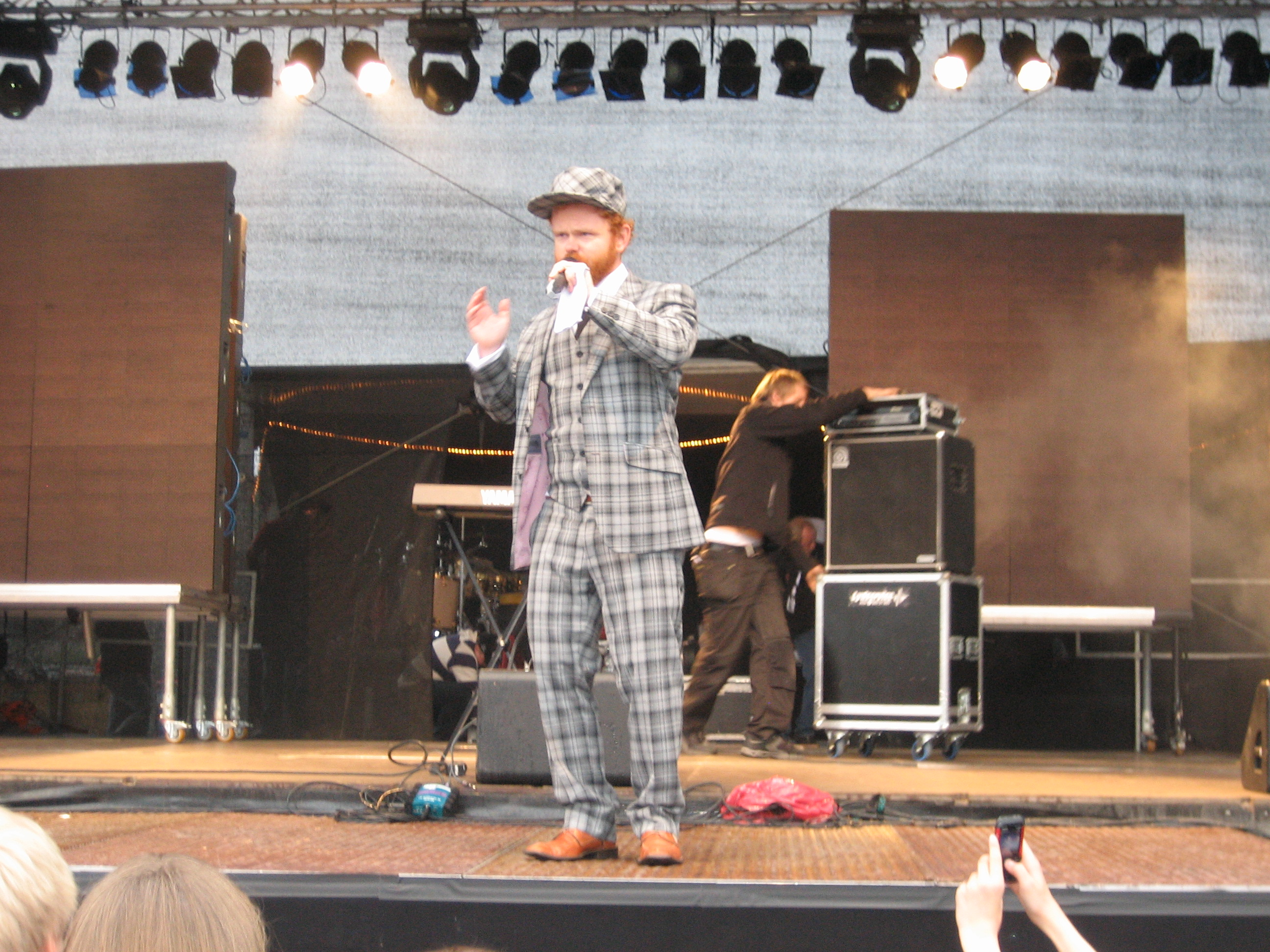 Norwegian musician and stand-up comedian Ivar Johansen (stage name Ravi) on stage during a StatoilHydro sponsored music and entertainment event in Hammerfest, Norway.